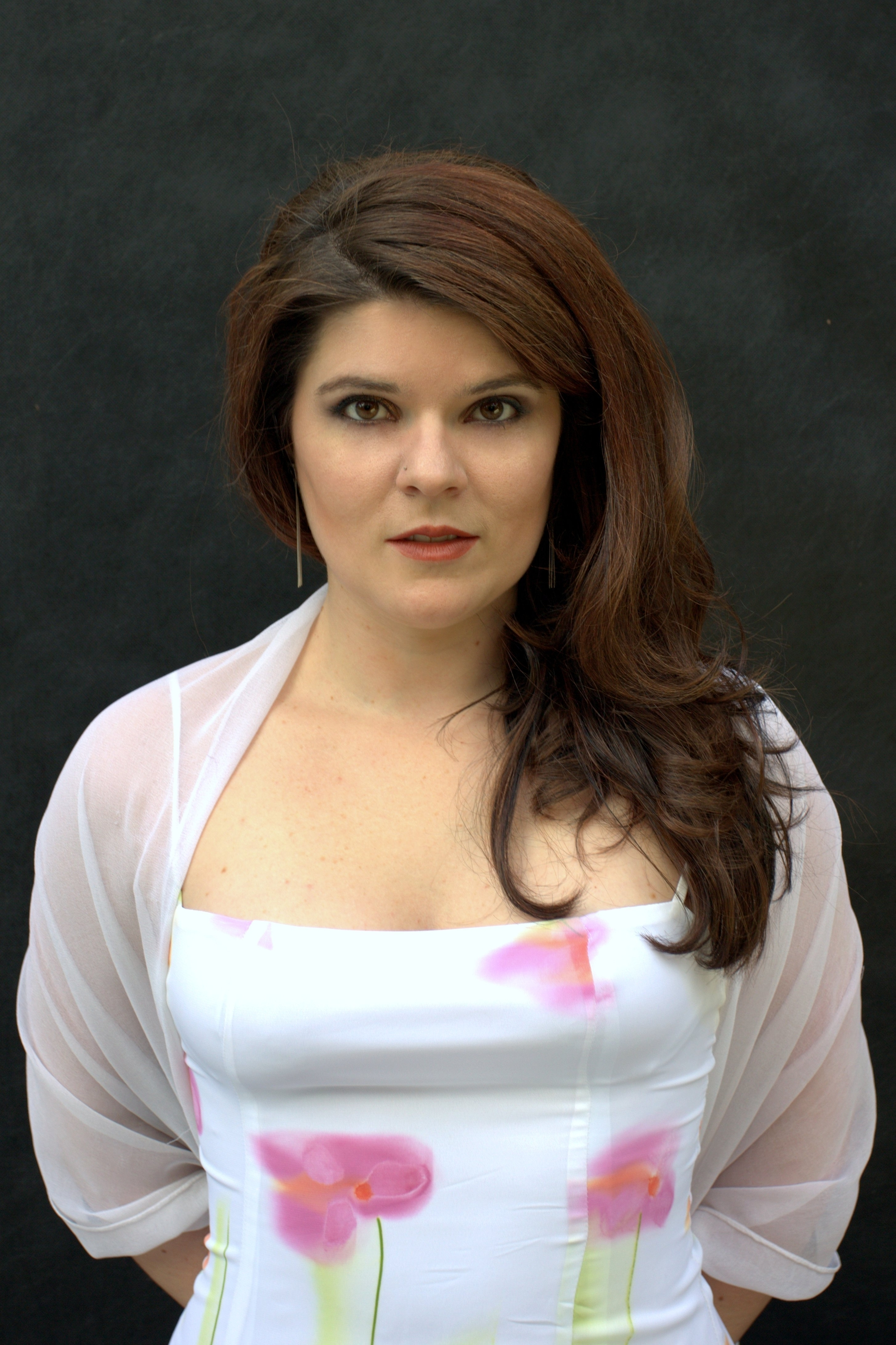 Portrait from Soprano Tati Helene